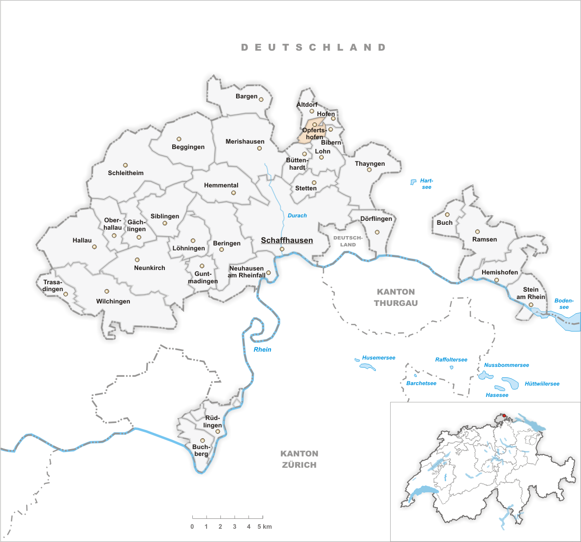 Municipality Opfertshofen